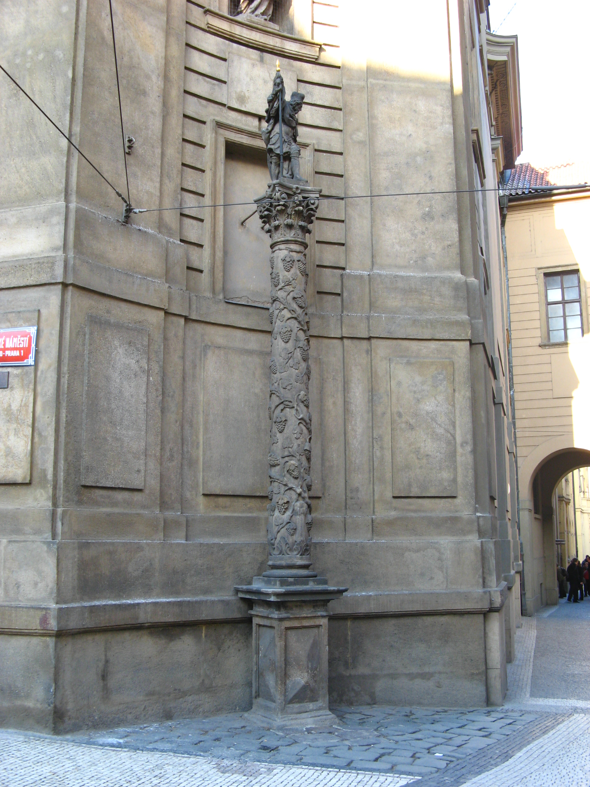 The oldest cobblestone in Prague nearby Charles Bridge.